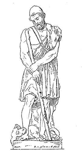 This is a copy of a plate by Jean-Auguste Barre (French Artist, 1811 - 1896) of Odysseus and Argos. It is presently in the Louvre Museum, Paris, France. It is not copyrighted. It is in the public domain.